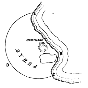 An illustration of the ancient city of Carthage by Sir William Thompson (Lord Kelvin), 1894.